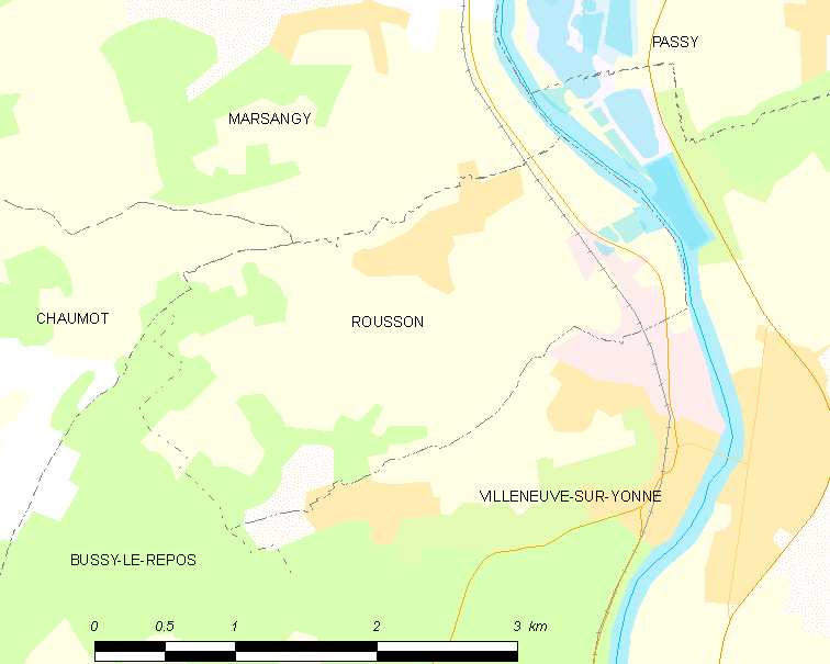 Map of French municipality Rousson